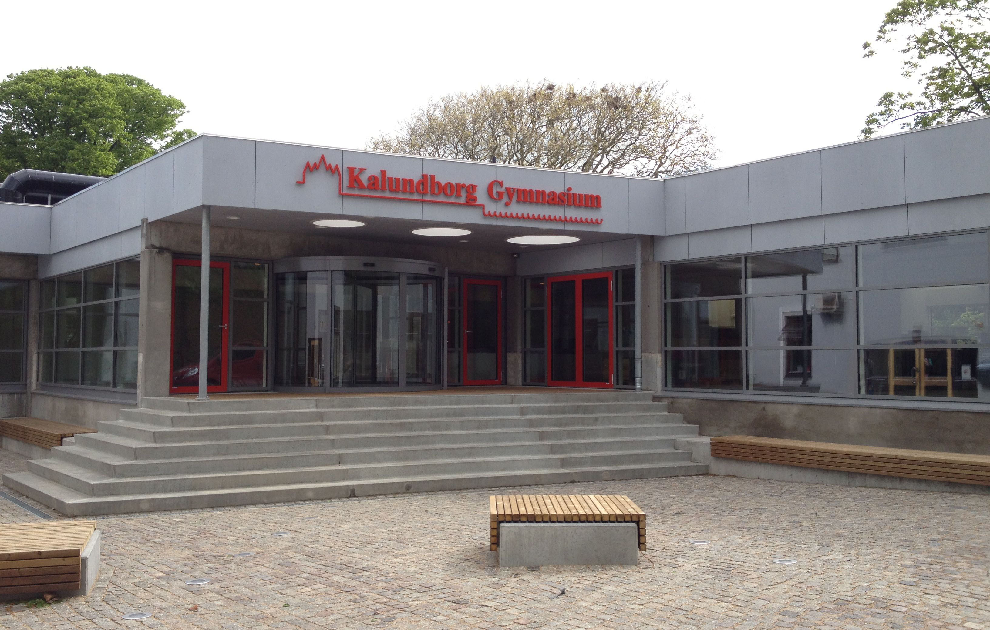 Kalundborg Gymnasium og hf